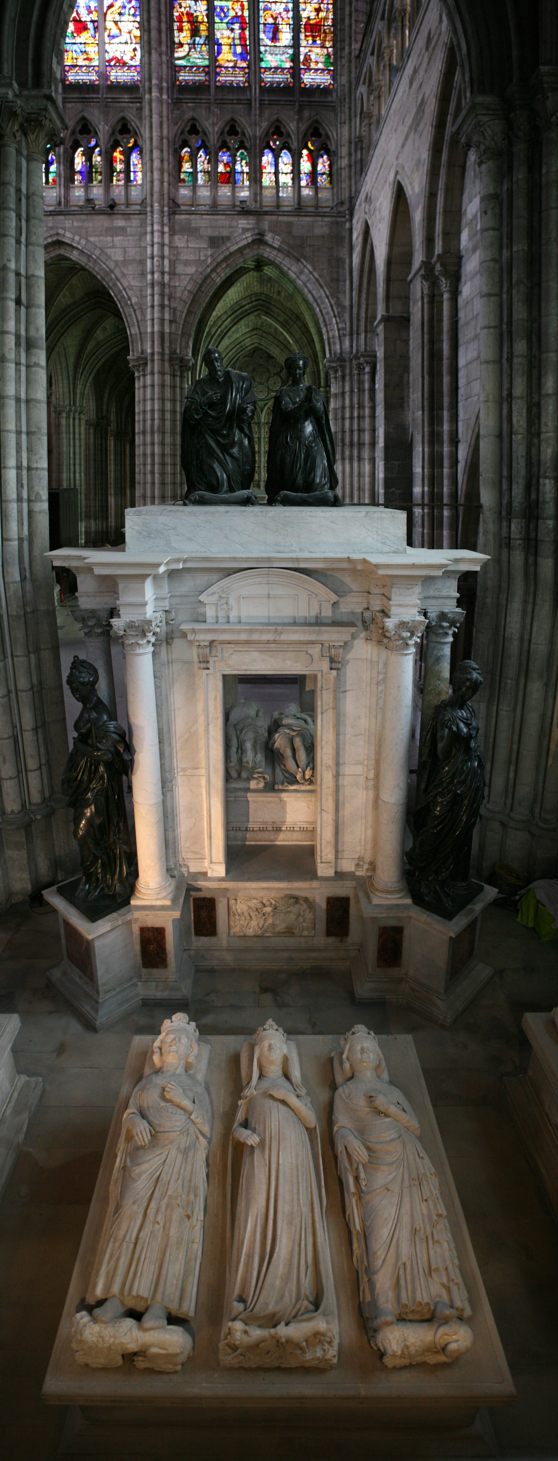 Tomb of Henry II and his wife Catherine de' Medici with gisant effigies of Philip V of France, Jeanne d'Évreux and Charles IV (sculptured with a trunk of female proprotions and an almost female neck)